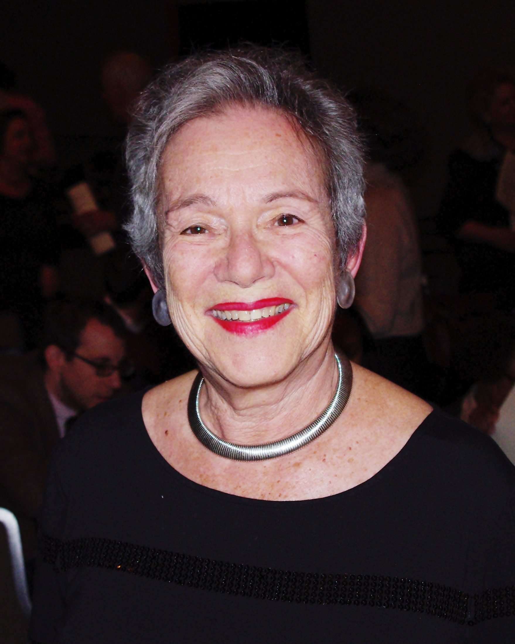 Poet Edith Pearlman at the National Book Critics Circle Awards for the 2011 publishing year.